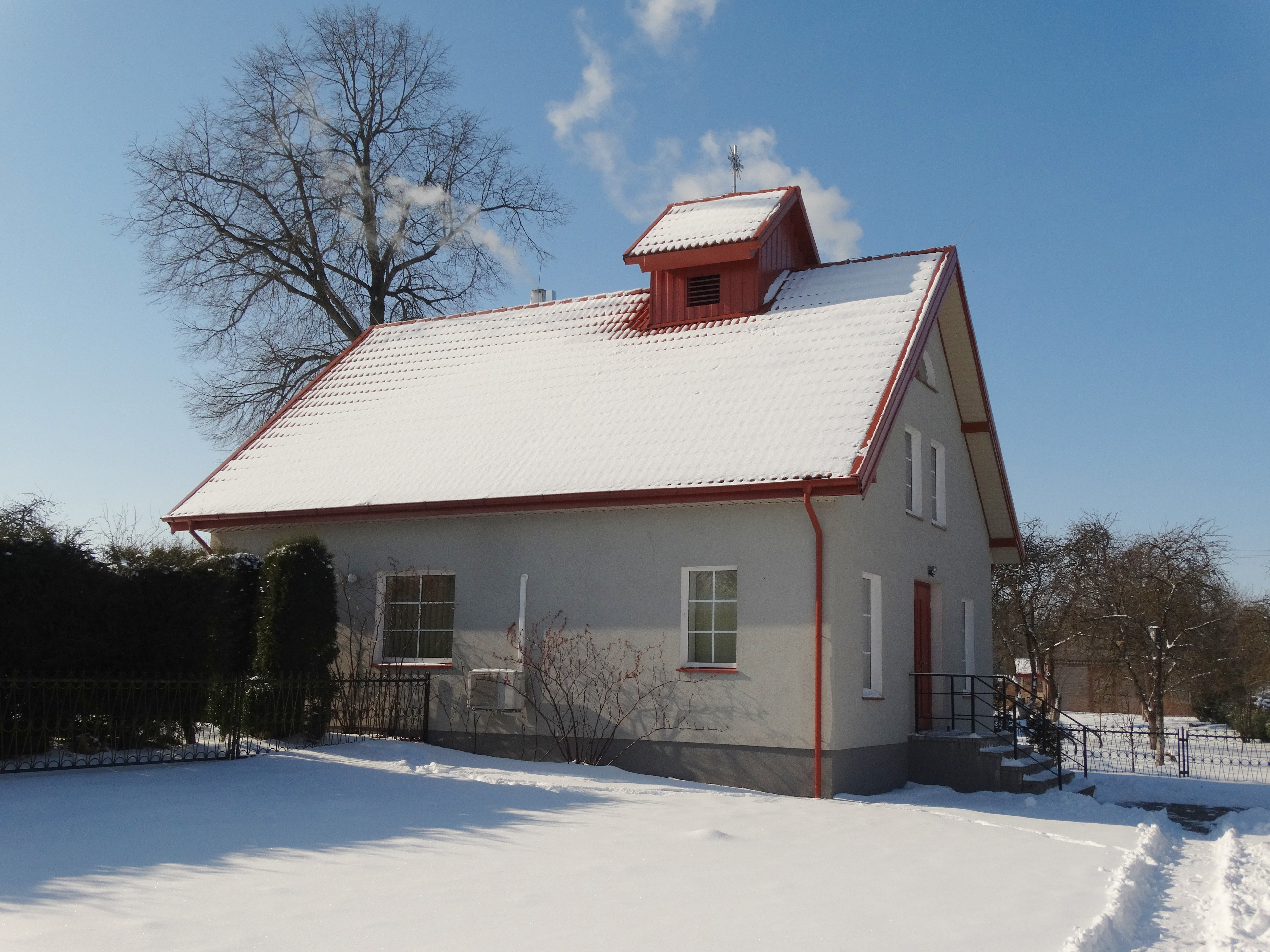 Roman Catholic Church, Vilkyškiai, Pagėgiai Municipality, Lithuania